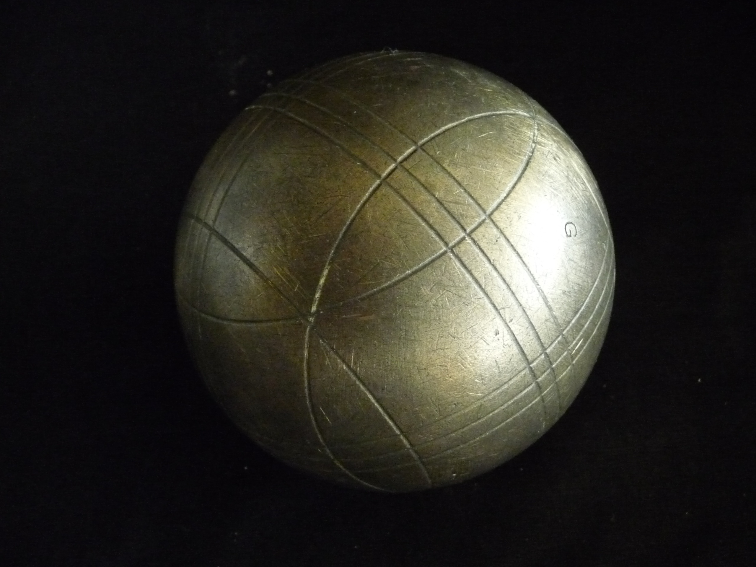 This bocce ball is made of metal with lines engraved in even patterns around it. It has a gold/brass colouring. Bocce balls are round in shape and they roll evenly without bias. Bocce is normally played on soil or asphalt courts measuring 20 to 27 metres in length and 2.5 to 4 metres wide. Wooden boards often surround the court. Players have to roll their bocce ball to try to get closest to a small white or yellow target ball called the pallino. Sometimes an opponent’s ball is knocked out of the way in the process. This game dates back to ancient Roman times. Bocce is played mainly in Southern Europe and was brought to countries around the world by Italian migrants.